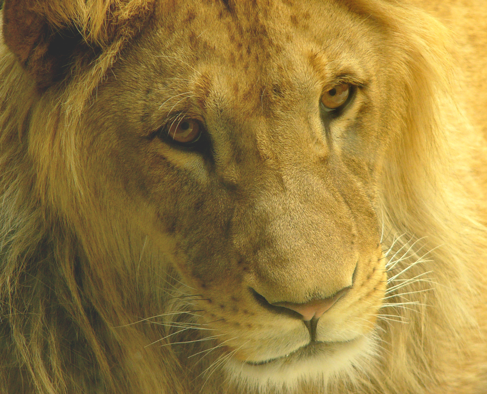 Male lion in the Olomouc zoo